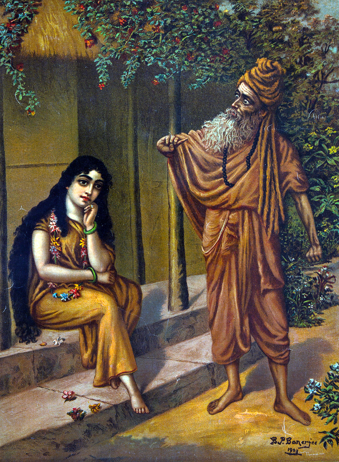 Durvasa’s wrath against Shakuntala B. P. Banerjee Date: 1903 Dimensions: H. 50.8 cm, W. 38 cm Medium: Oleograph on paper Region: Bengal Museum number: POP.01694